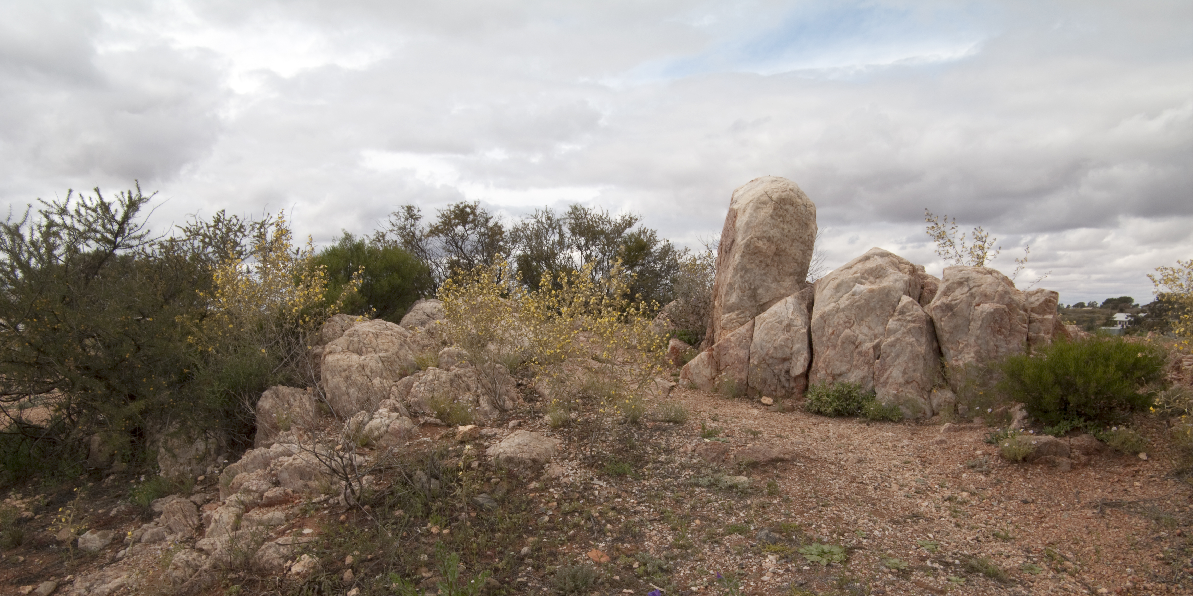 The outcrop of white quartz at White Rocks Reserve, Broken Hill, New South Wales, where the final stages of the Battle of Broken Hill took place.